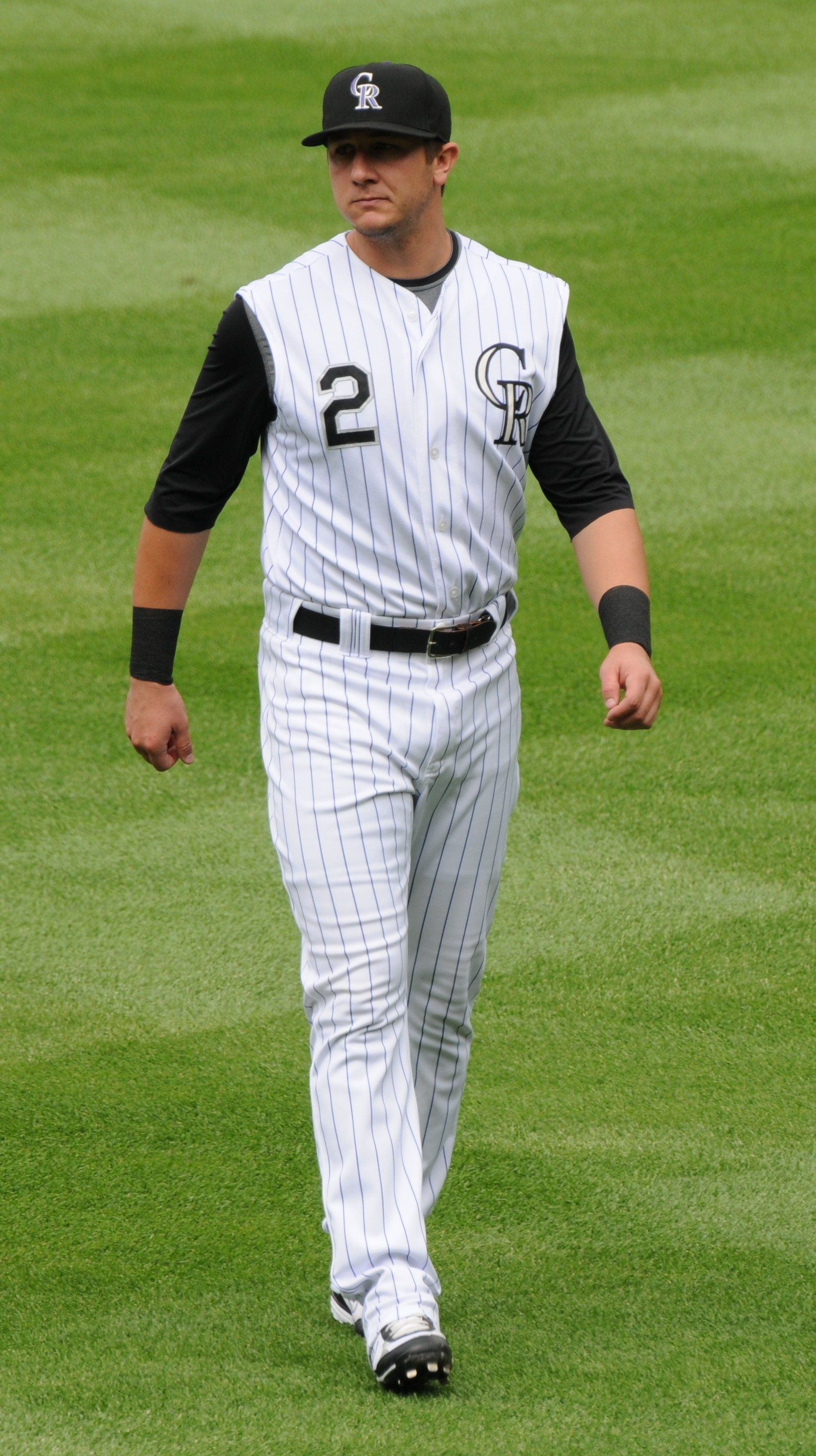 Description own work DateSourceI created this work entirely by myself.AuthorOnetwo1 (talk) 16:15, 8 August 2008 . . Onetwo1 . . 1,596×2,847 (810 KB) own work